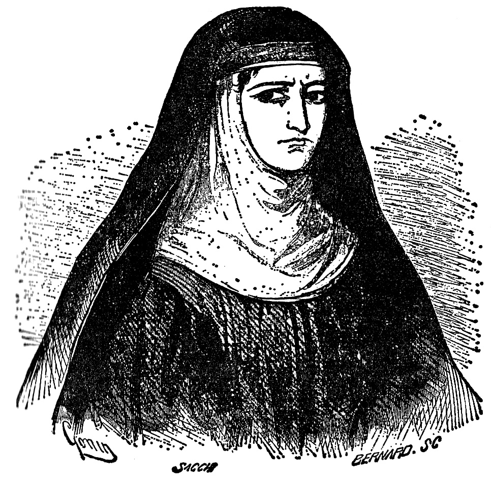 Picture from "I promessi sposi" of the Nun of Monza